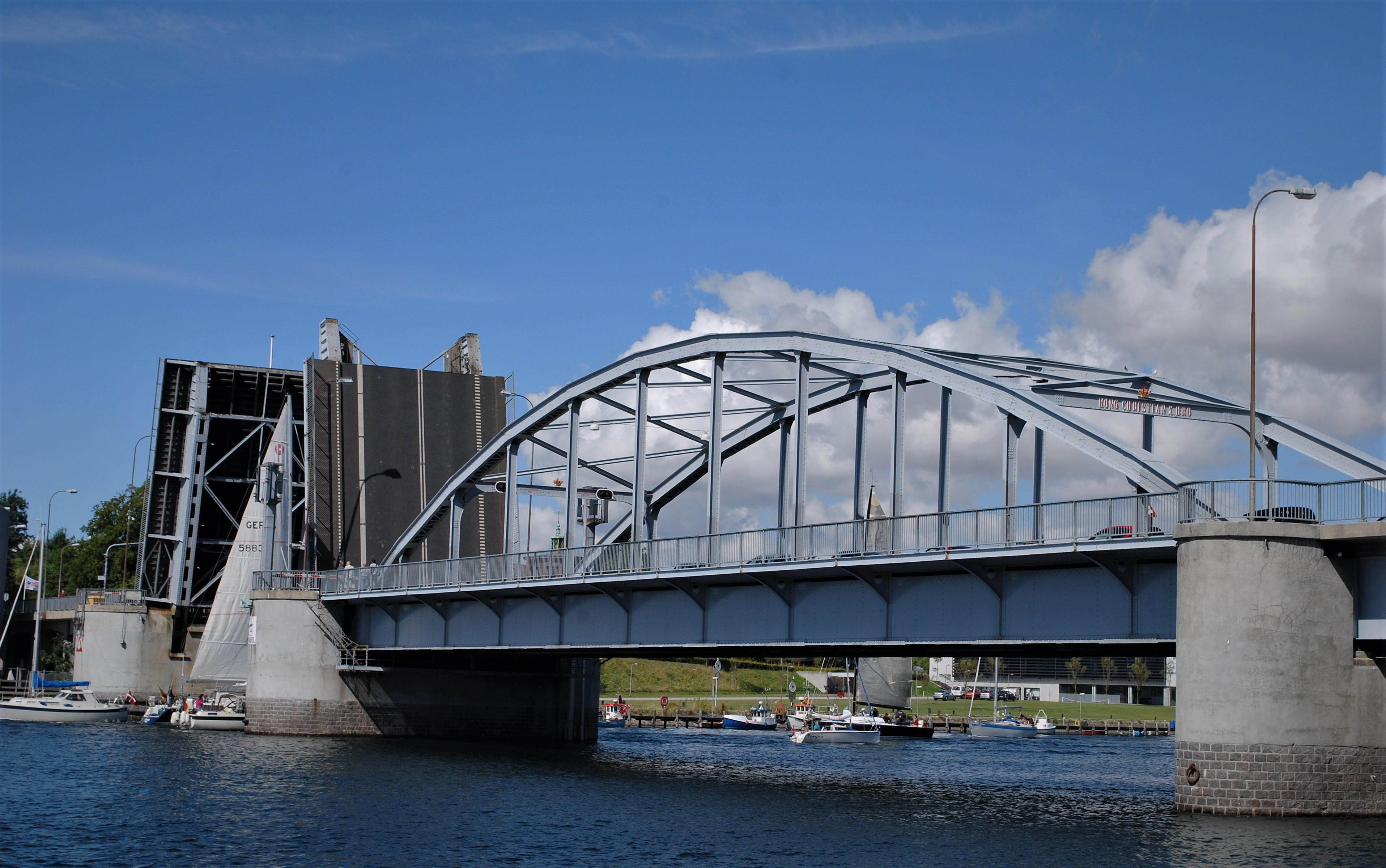 Kong Christian den X's Bro, Sonderburg, Denmark